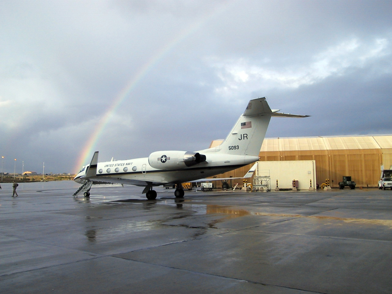 Naval Air Facility, Andrews Air Force Base, Washington, D.C. (Mar. 24, 2004) – A C-20G Gulfstream IV belonging the U.S. Navy’s Fleet Logistics Support Squadron Four Eight (VR-48). Commander, Naval Air Reserve Force has announced that VR-48 has been awarded the 2003 Noel Davis Battle Efficiency Award. During 2003, VR-48 operated on six continents, flew more than 3000 mishap-free flight hours, hauled 183,922 pounds of cargo, transported over 4935 passengers, and completed 24 overseas detachments, with only one not in direct combat support of U. S. Navy Forces Central Command (NAVCENT), U. S. Marine Forces Central Command (MARCENT), Commander Joint Task Force Horn of Africa (CJTF HOA), and the Coalition Forces Air Component Commander (CFACC). U.S. Navy photo. (RELEASED)